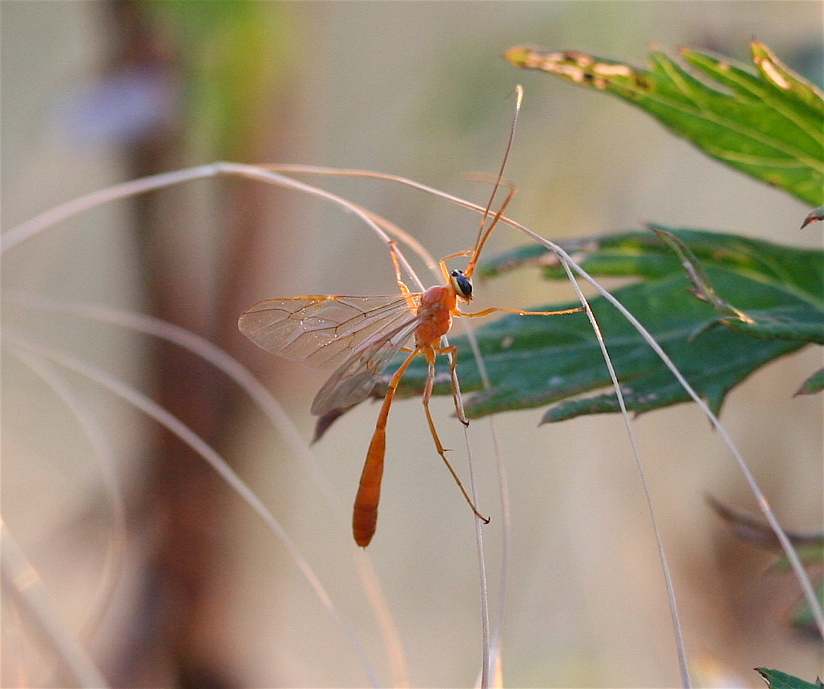 Hymenoptera - Ichneumonidae - Ophioninae